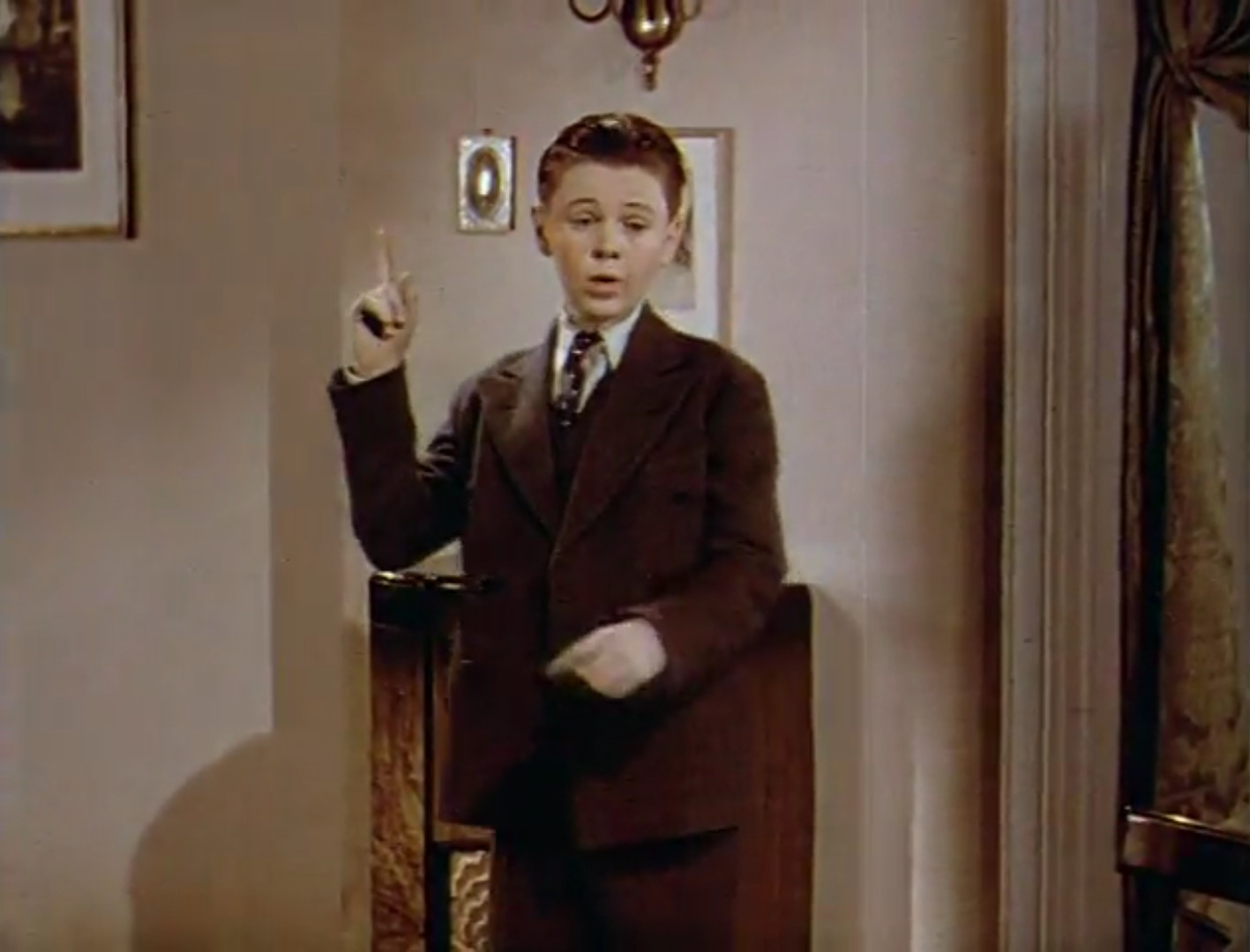 Scene from The Middleton Family at the New York World's Fair. claims this video as public domain, so I boldly believe the copyright has expired.